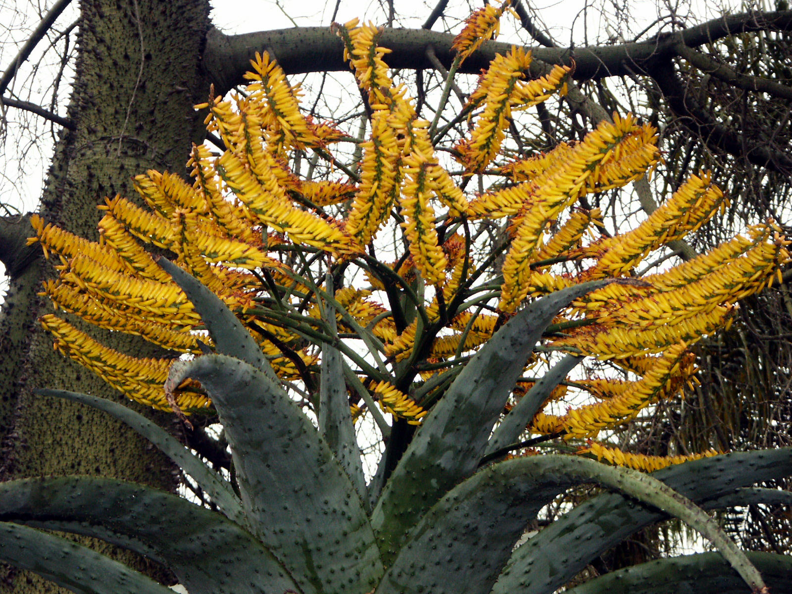 Huntington Library Desert Garden - in the rain - Aloe Marlothii flower blooms